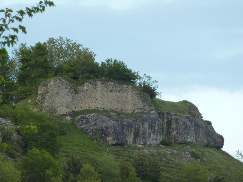 Rocca Roseto Fortess, Piano Roseto, Crognaleto, TE